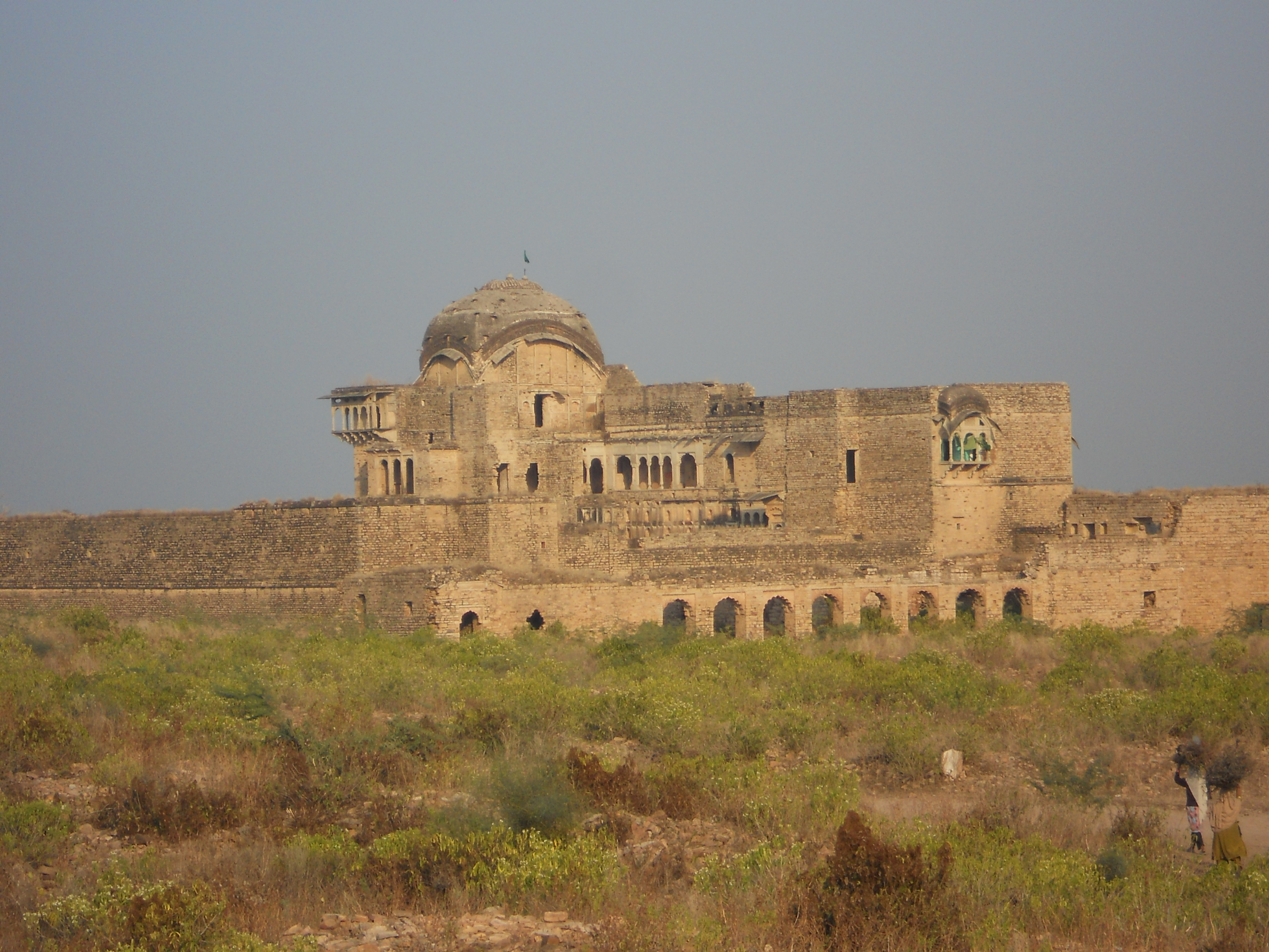 Front view of Naval Singh palace in Sabalgarh fort, Madhya Pradesh, India.